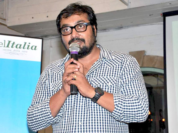 Filmmaker Anurag Kashyap at a press meet for the film Udaan